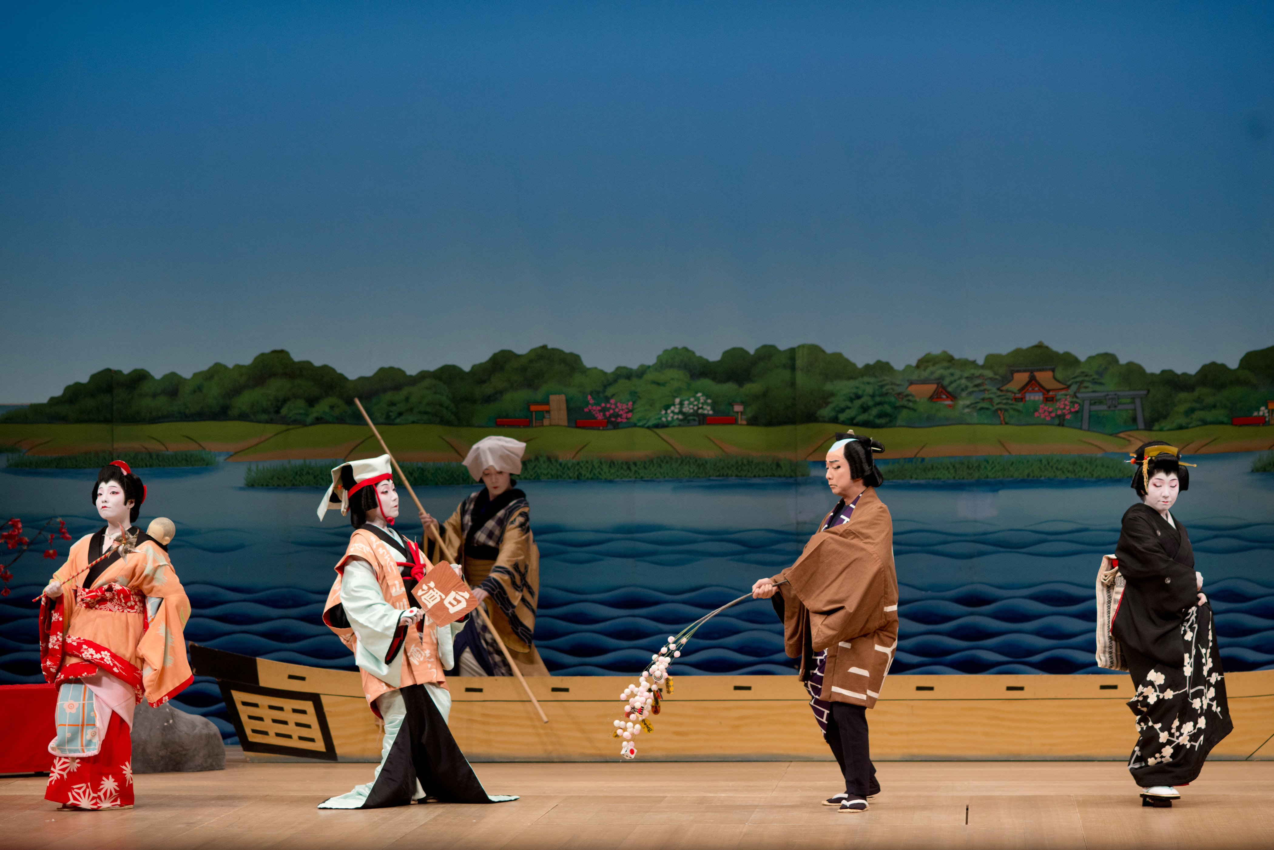 Sengiku Bando performance, performed in Tokyo, Japan in April 2016.